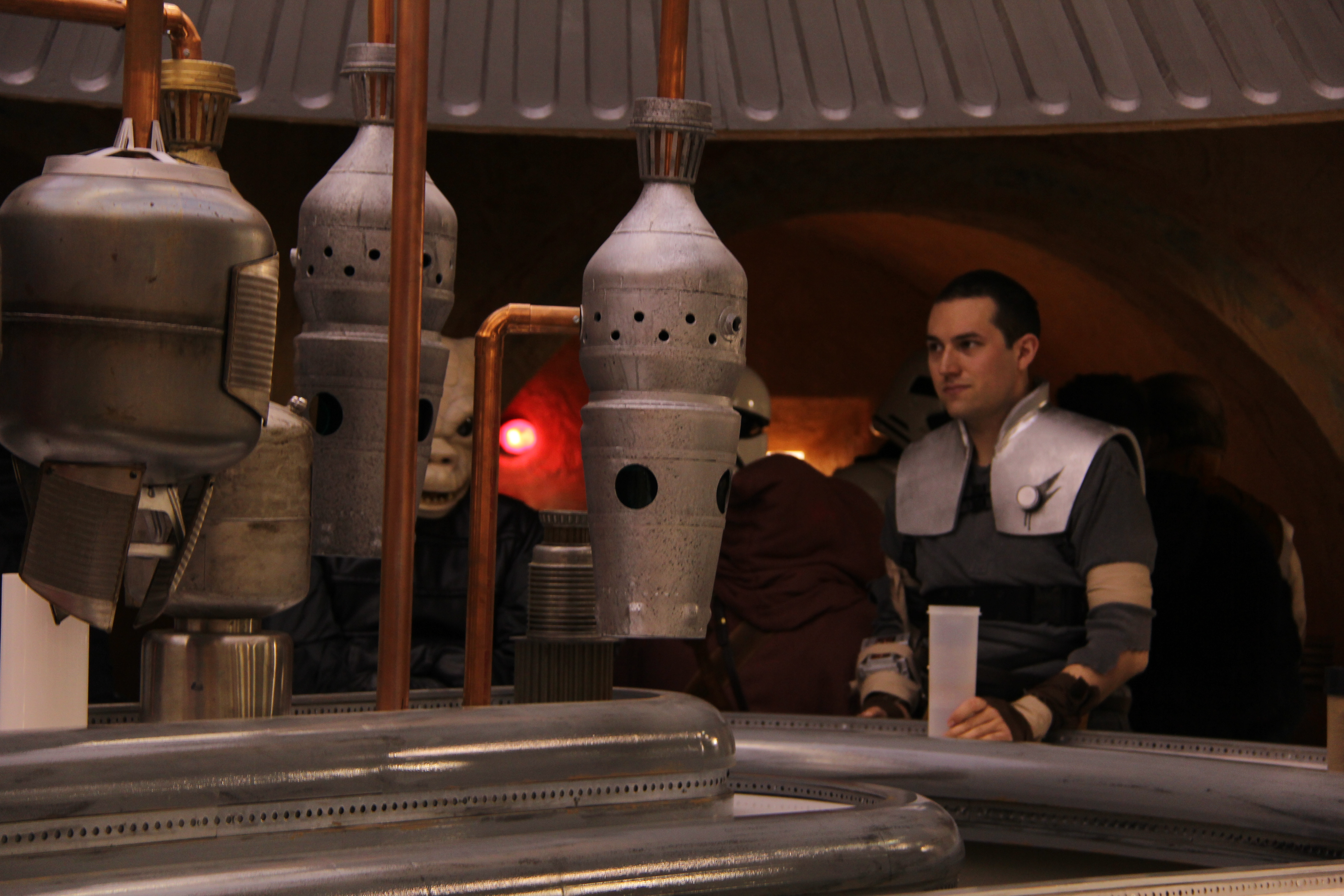 SWCA - Mos Eisley Cantina Star Wars Celebration in Anaheim, April 2015.